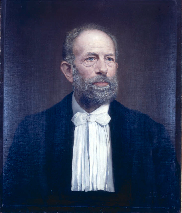 Painting of Utrecht professor Hendrik Cornelis Dibbits (1838-1903) by Johan Coenraad Ulrich Legner